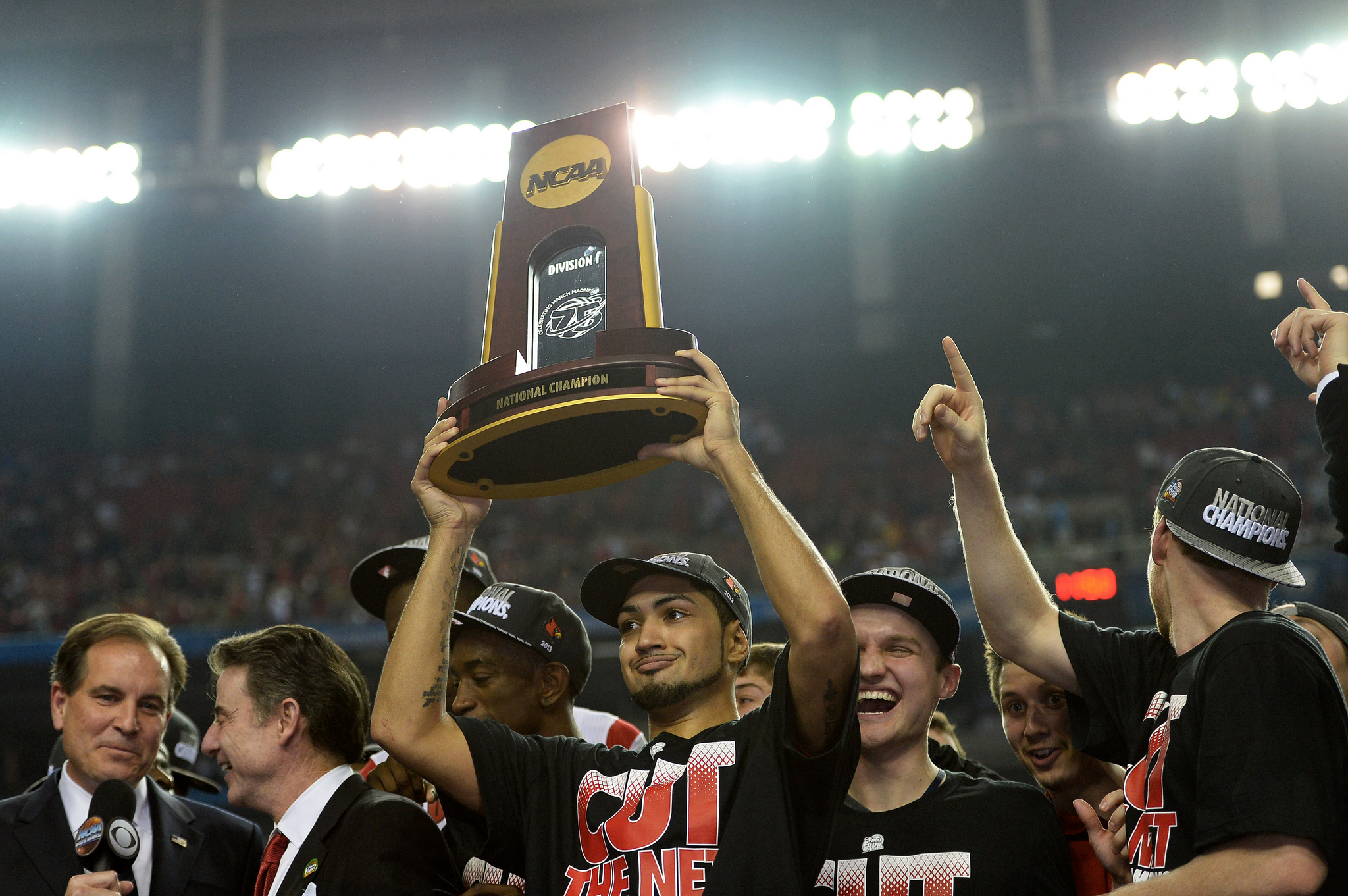 Peyton Siva hoists Louisville's NCAA championship trophy after the NCAA Men's Division I Basketball Championship game at the Georgia Dome on April 8, 2013.